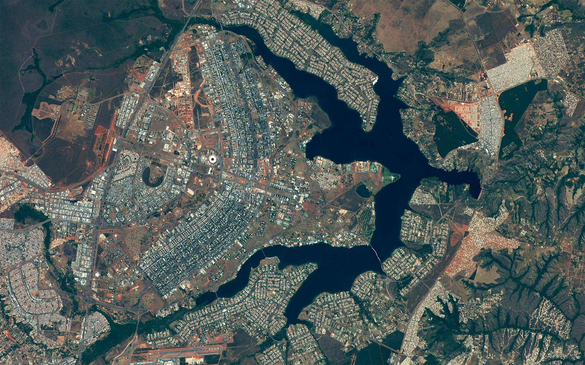 Federal District, Brazil, as viewed from Hodoyoshi-1 satellite.